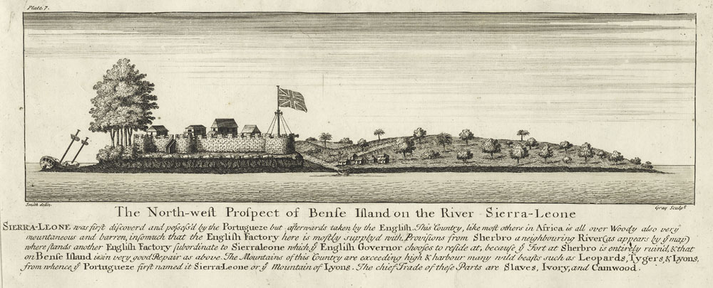 Artist's impression of Bunce Island c.1727 from the north-west.